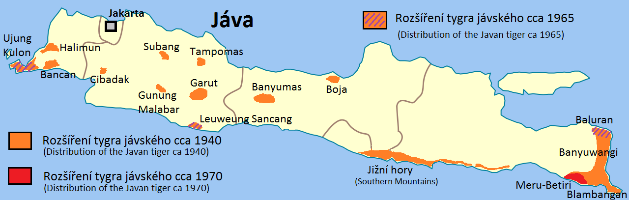 Distribution of Panthera tigris sondaica in 1940 and 1970. Based on Seidensticker, John. "Large Carnivores and the Consequences of Habitat Inzularization: Ecology and Conservation of Tigers in Indonesia and Bangladesh", p. 22.